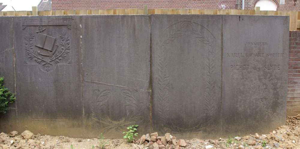 National Monument no. 28031, Ambyerstraat Noord 1, Maastricht, The Netherlands.